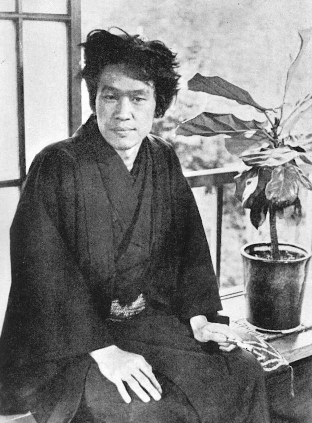 Riichi Yokomitsu